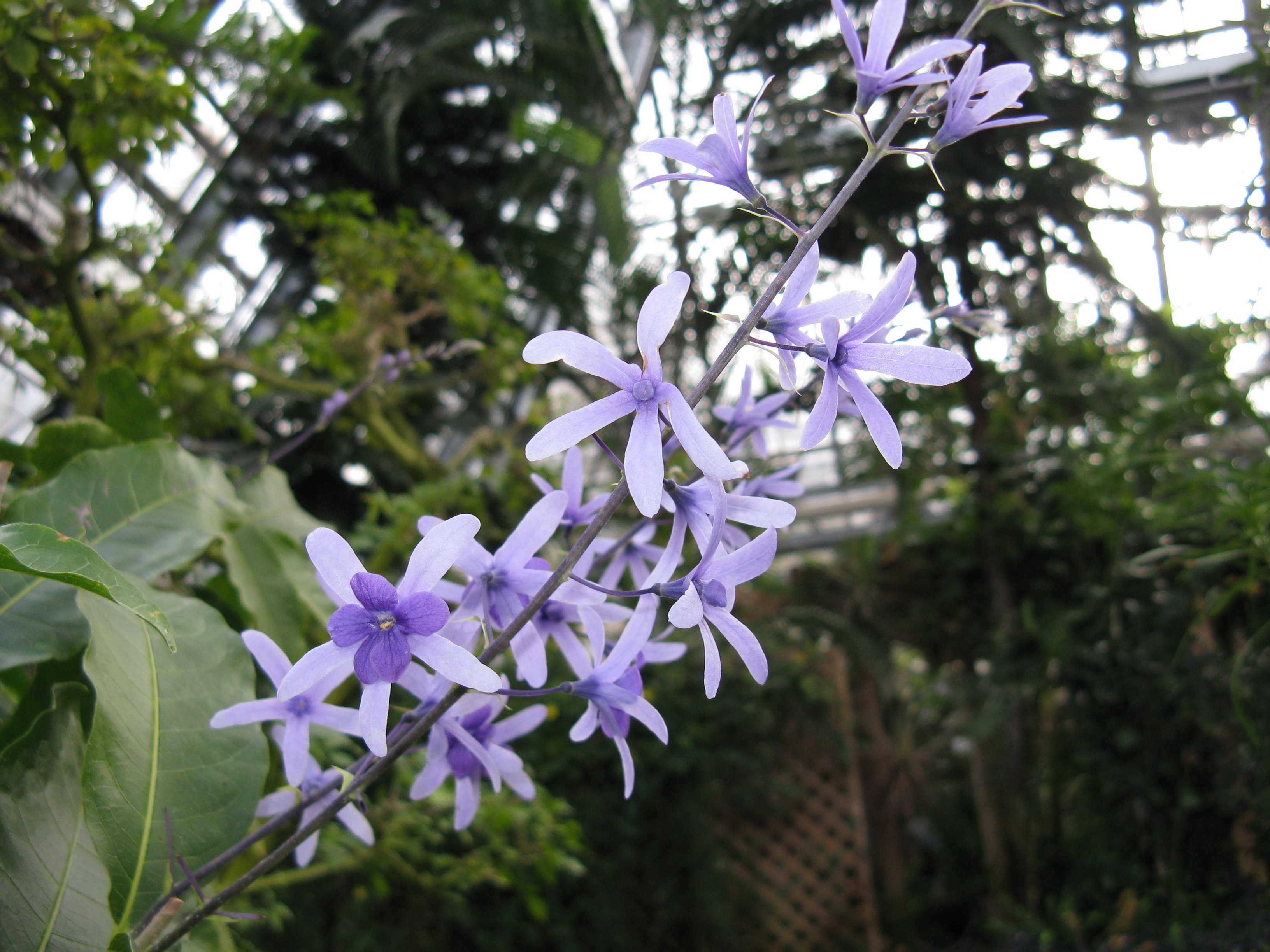 Petrea volubilis Place:Osaka Prefectural Flower Garden,Osaka,Japan